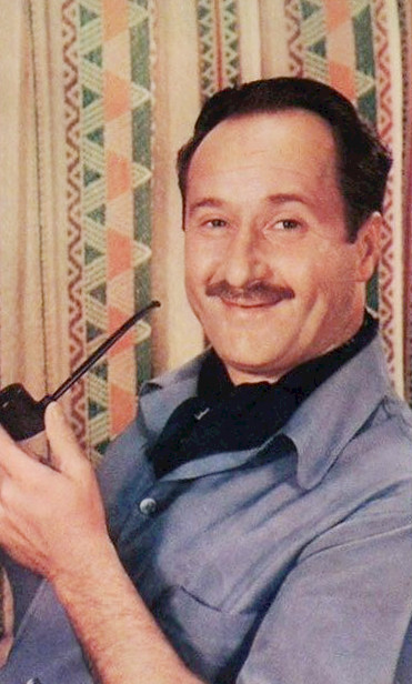 Photo of George Tobias from a 1942 New York Sunday News magazine. The magazine contains four color photos of Kay Kyser, Nan Grey, Eve Arden and George Tobias with Gene Autry File:Gene Autry 1942.JPG on the cover. A search for renewals was done in periodicals for the years 1969 and 1970 There were no listings for New York Daily News or New York Sunday News--the first "New York" listing is for New York Supplement. There's no evidence of renewal for the newspaper.